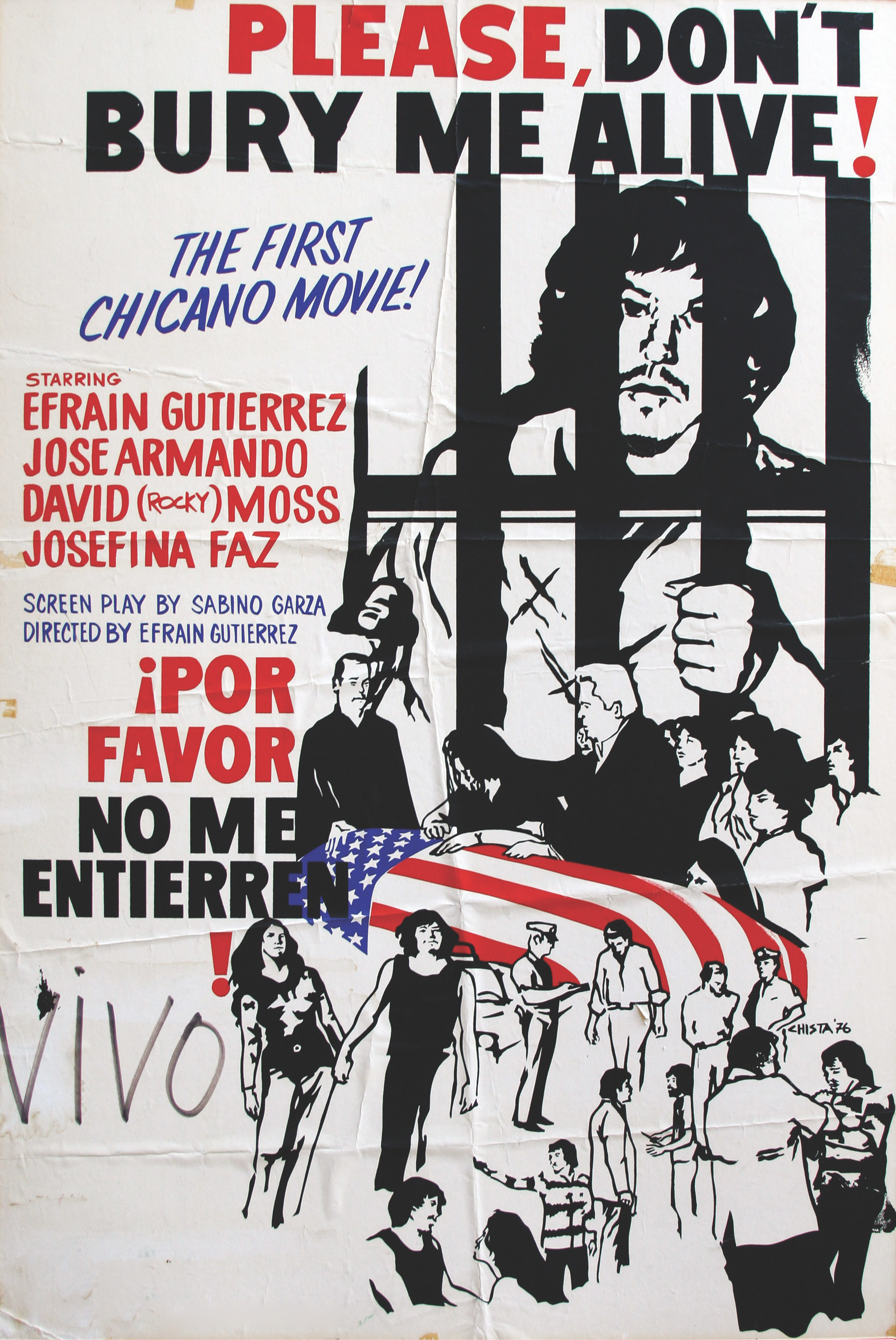 Poster for the 1976 American film Please, Don't Bury Me Alive!. Directed by Efraín Gutiérrez and distributed independently, the film features dialogue in both English and Spanish and is considered the first Chicano film.